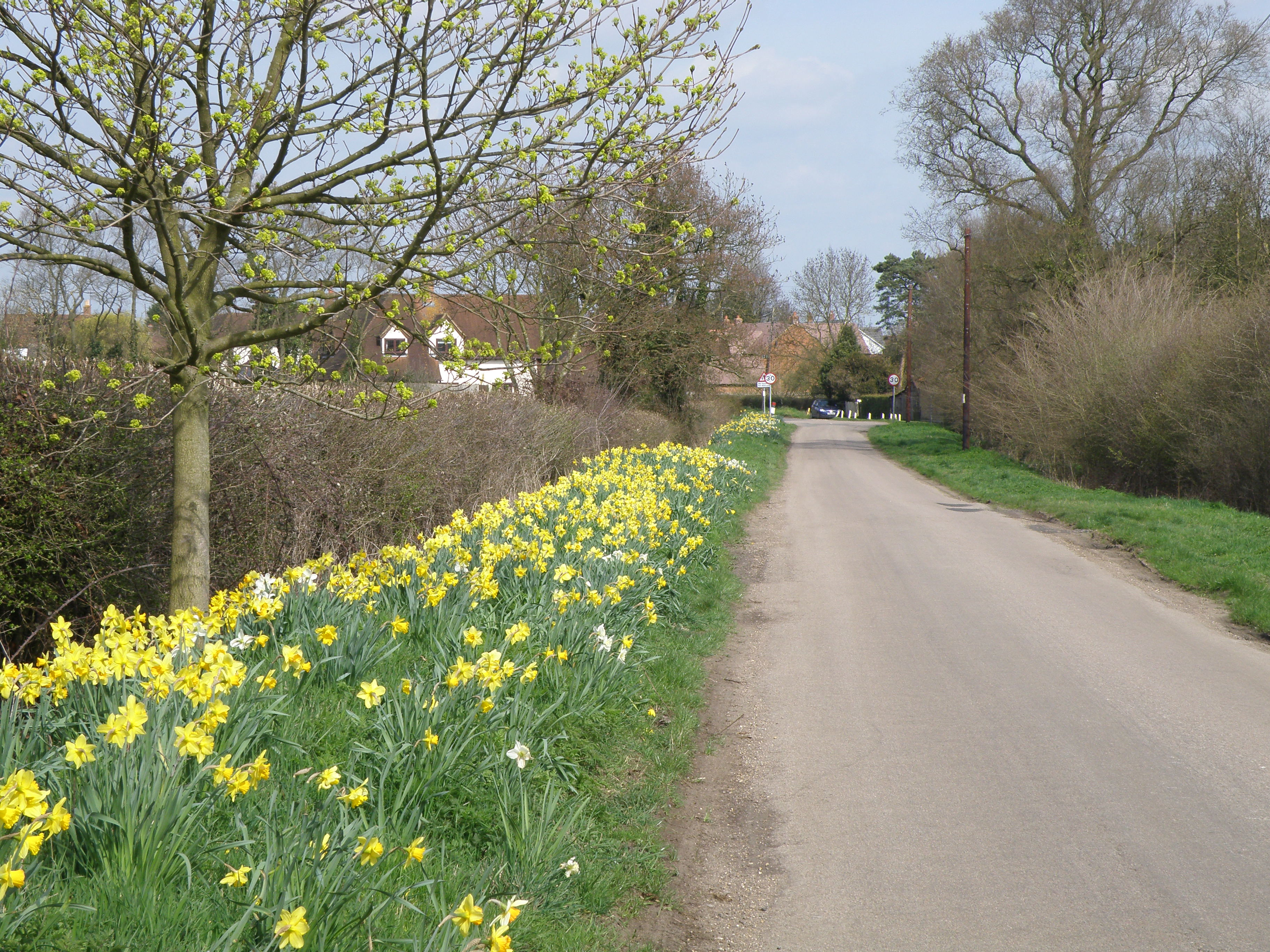 Springtime on the Butts, near to Riseley, Bedfordshire, Great Britain. Butts lane leading to Rotten Row, Riseley